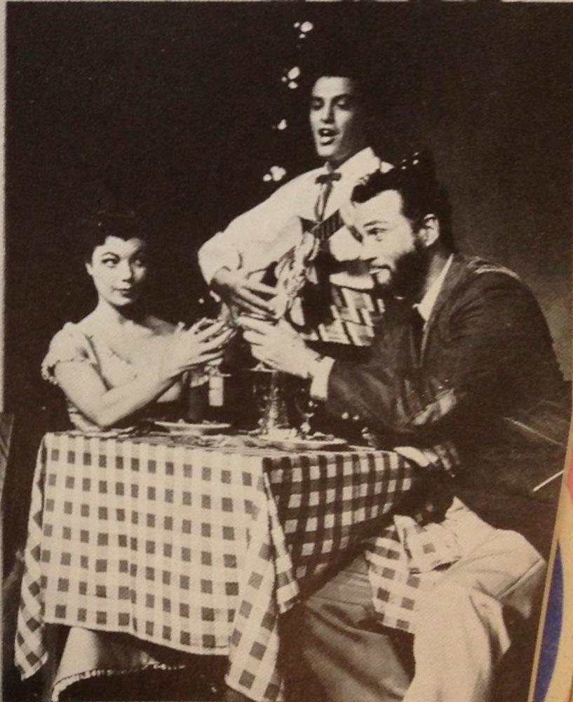 Judy Tyler as Suzy and William Johnson as Doc (Jerry LaZarre as Esteban serenade them